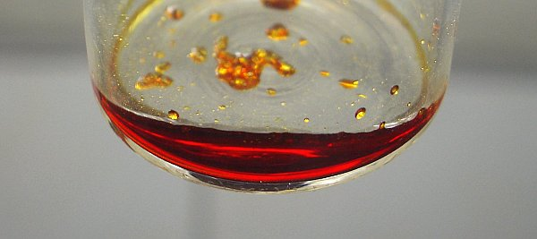 Sulfur(I) bromide, 500 mg